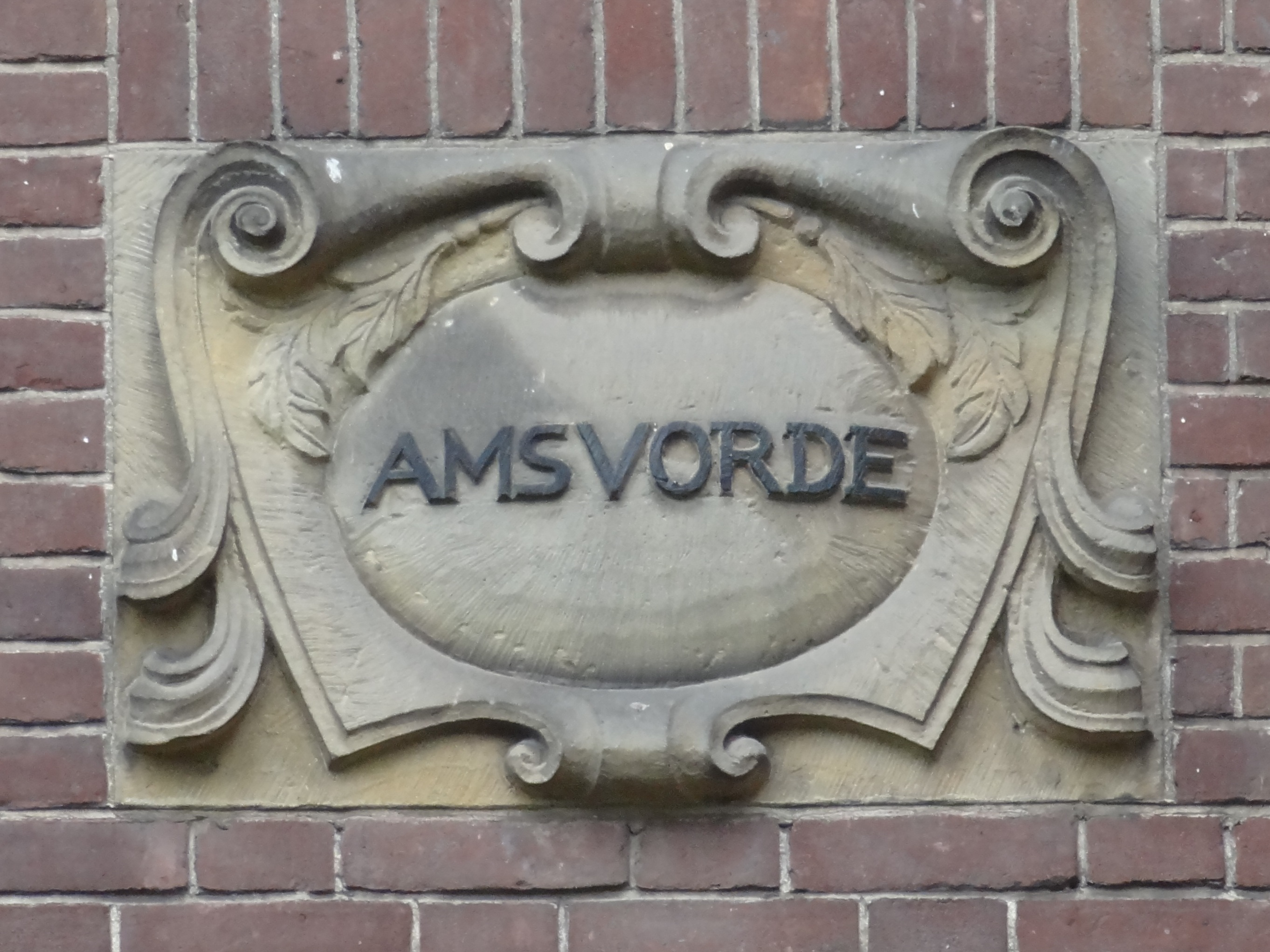 Gable stone 'Amsvorde' at the facade of Utrechtseweg 78 in Amersfoort, The Netherlands